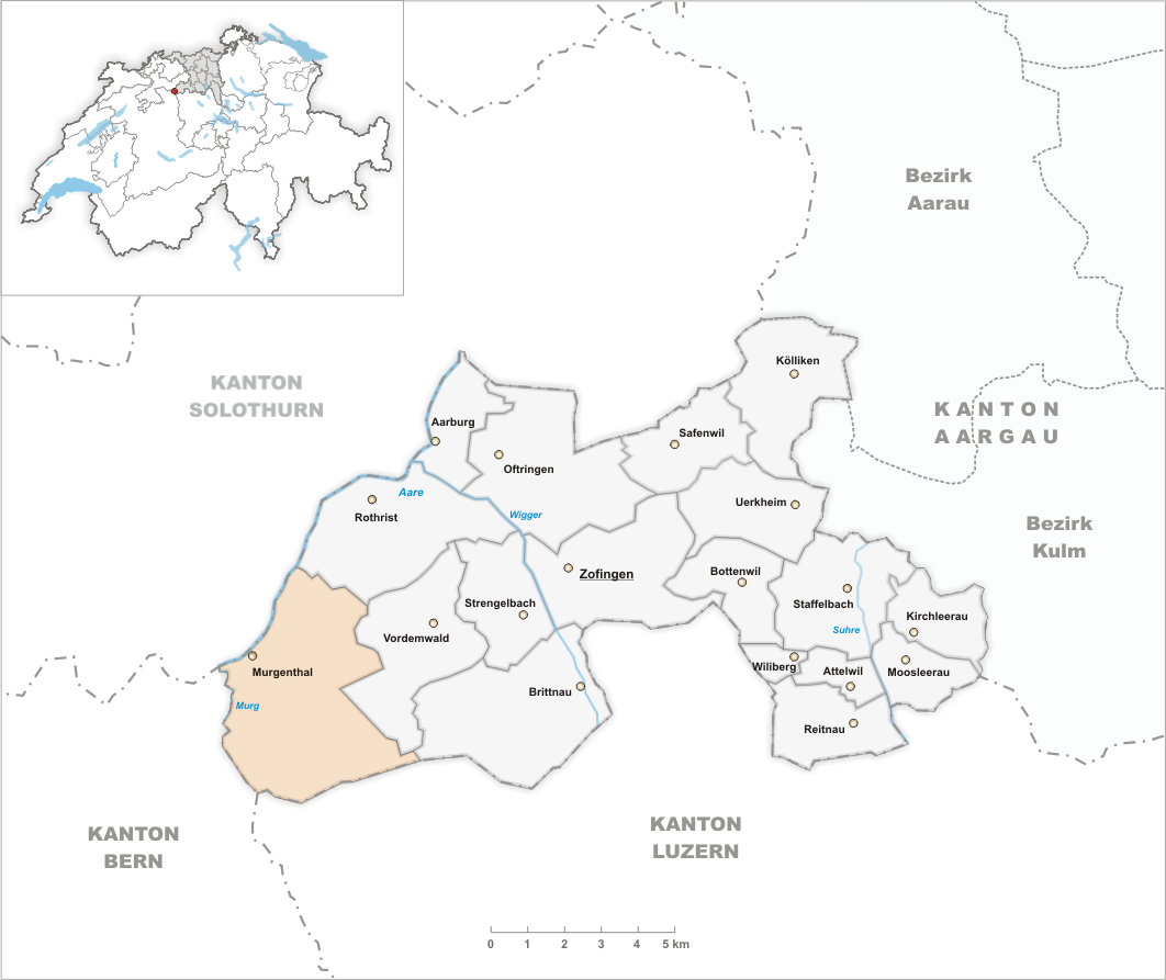 Municipality Murgenthal